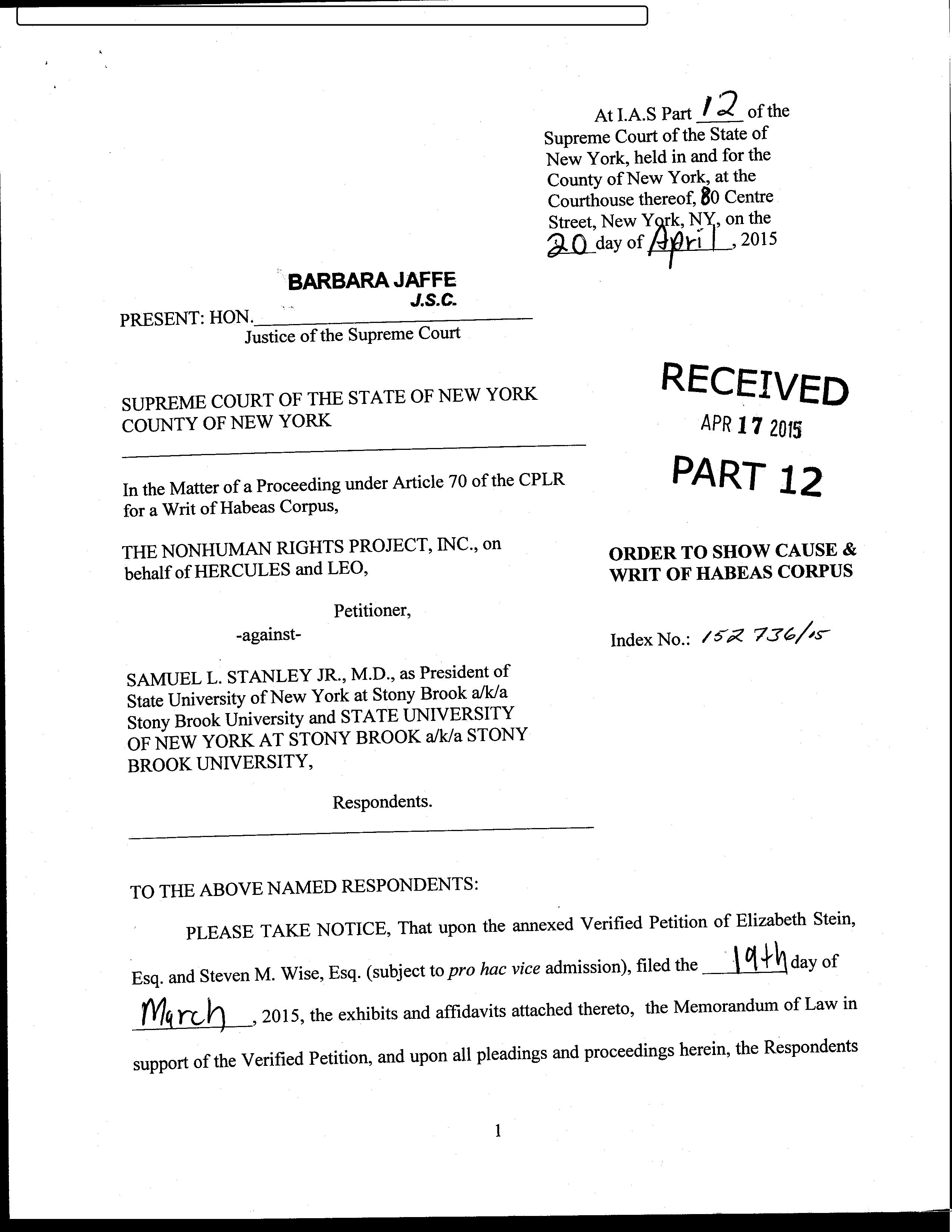 This is the front page of an order which appears as if it grants a hearing and the "writ of habeas corpus" to two chimpanzee petitioners Leo and Hercules. The order did not actually grant habeas corpus. Because of the media frenzy the order was amended with the phrase "habeas corpus" manually crossed out. This filing of this document was initially interpreted as granting chimpanzees a right to liberty and was reported all over the world.